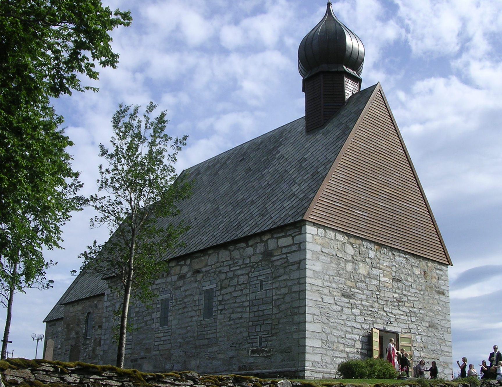 Church of Dønnes, Dønna, Nordland, Norway